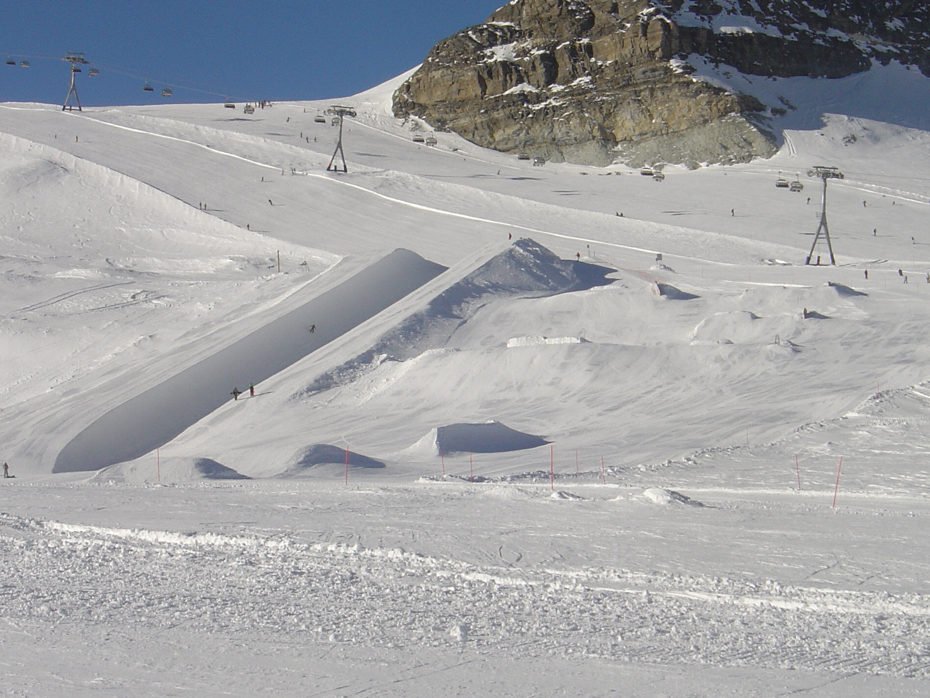 snowopark Zermatt (CH)